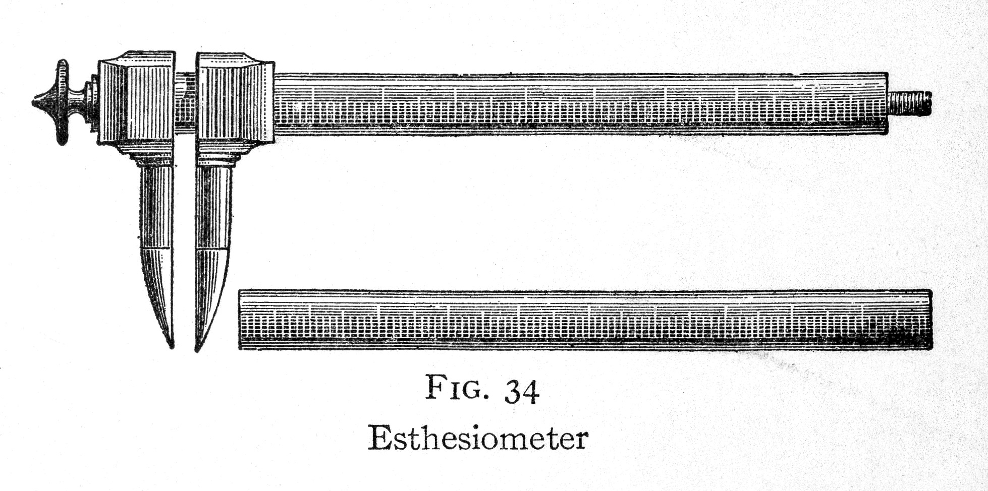 Esthesiometer General Collections Keywords: Cesare Lombroso